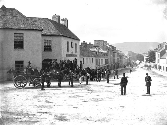 Main Street Kenmare, County Kerry, Ireland. Photograph taken between ca. 1880 and 1914. Glass negative. Part of the National Library of Ireland's Lawrence Collection. NLI reference number: lroy2748 Modern view (Google street view)